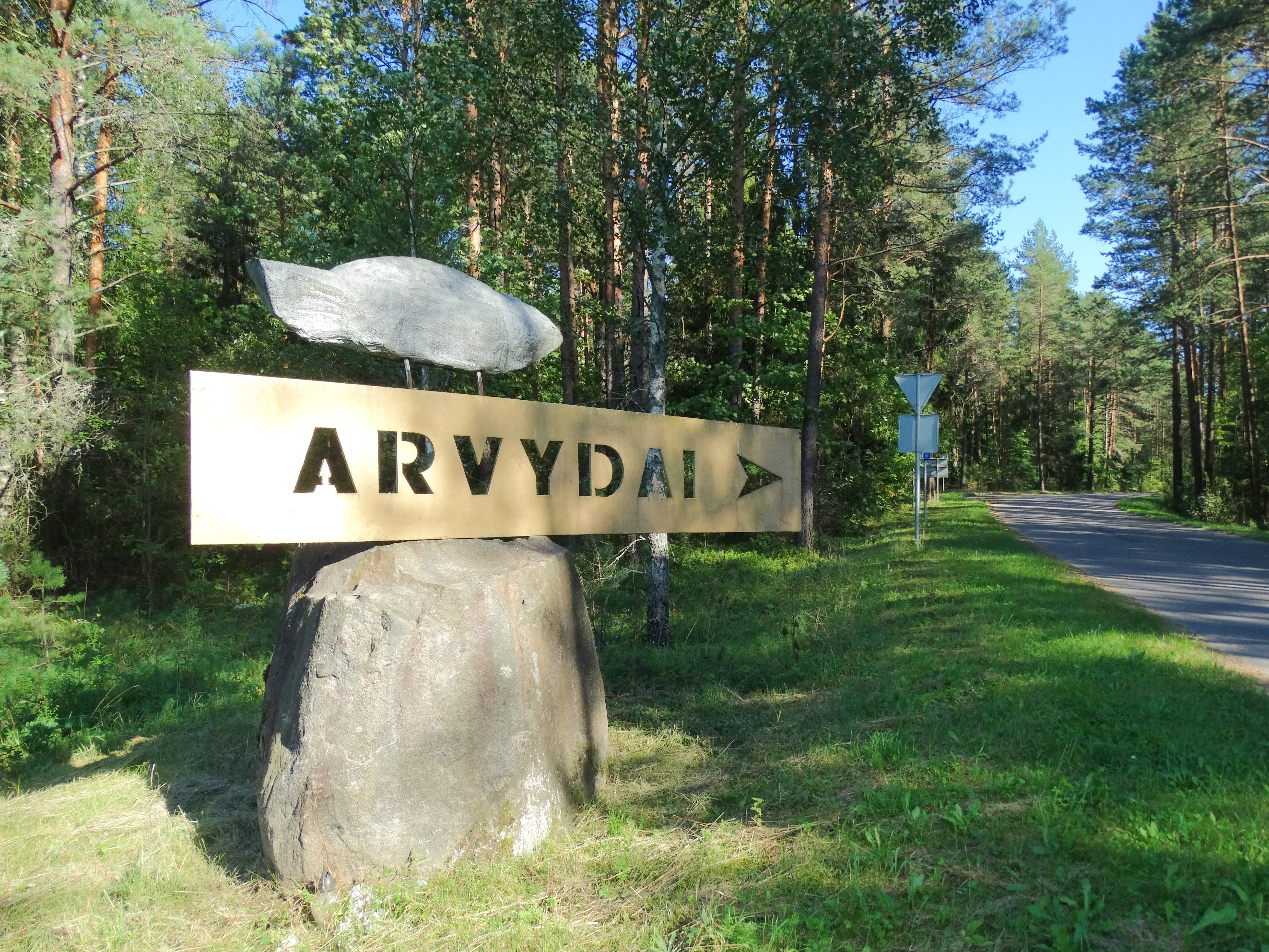 Arvydai, Vilnius District, Lithuania